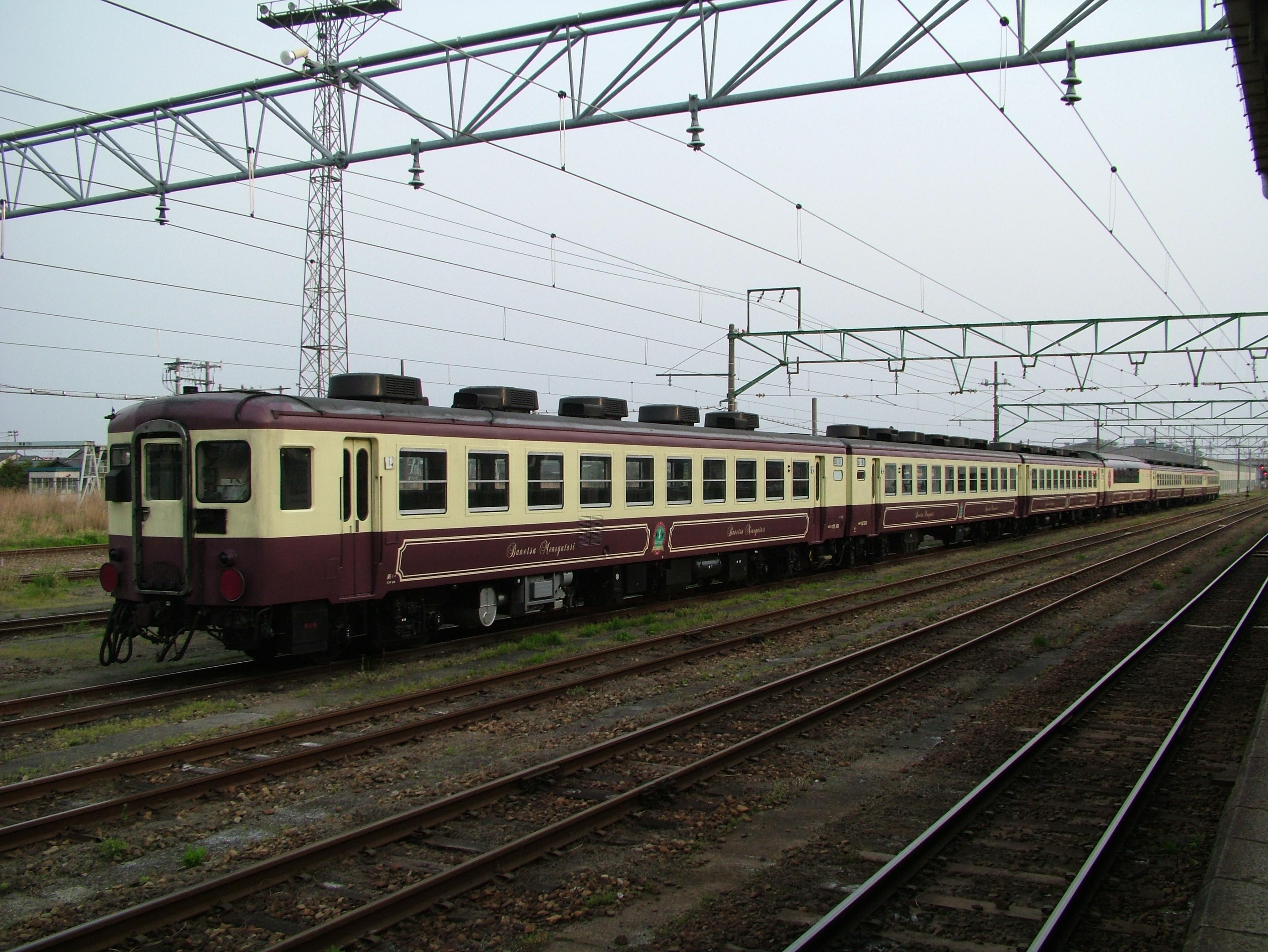 The JR East 12 series Banetsu Monogatari excursion train set